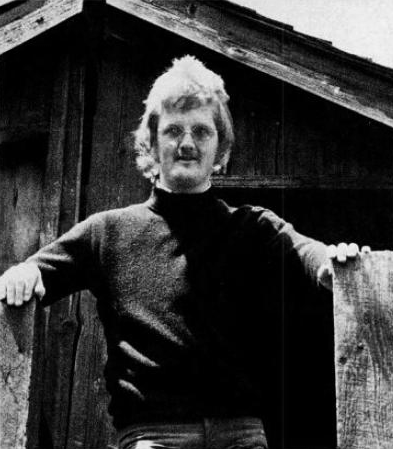 Trade ad for King Biscuit Boy's album Official Music. To better adapt it to his respective Wikipedia article, the ad was cropped and cleaned in a graphics editing program. The original can be viewed at the source below.